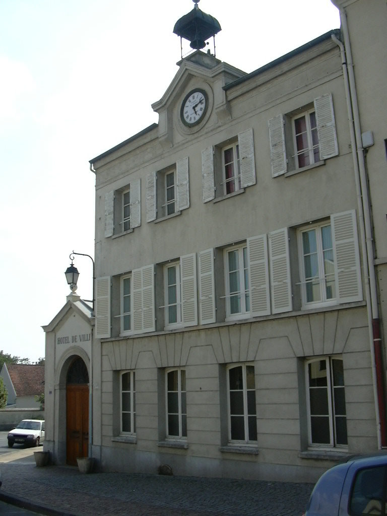 City Hall of Rebais, Seine-et-Marne, France